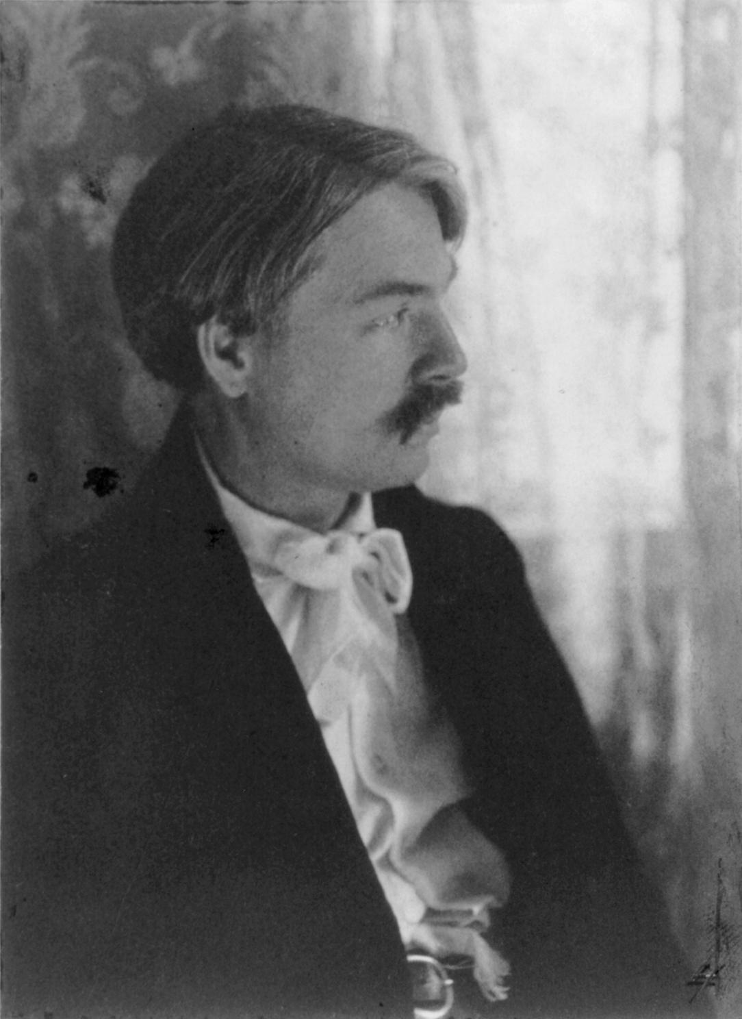 Portrait of Edward MacDowell: This was published in Gilman, Lawrence (June 1906). "The MacDowell Club". The Critic 48 (6): 519. New York, United States: G. P. Putnam's Sons. Retrieved on 2011-10-18.